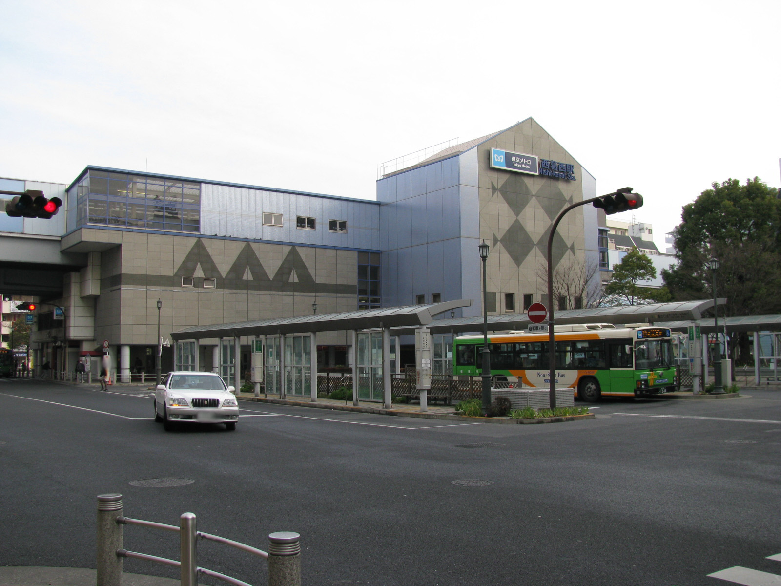 Station Building of Nishi-Kasai Station on Tokyo Metro Tozai line